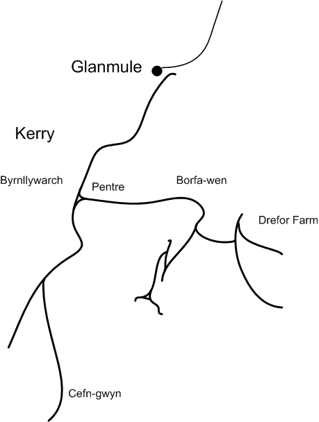 Map of the Kerry Tramway, mid-Wales Author: Dan Crow